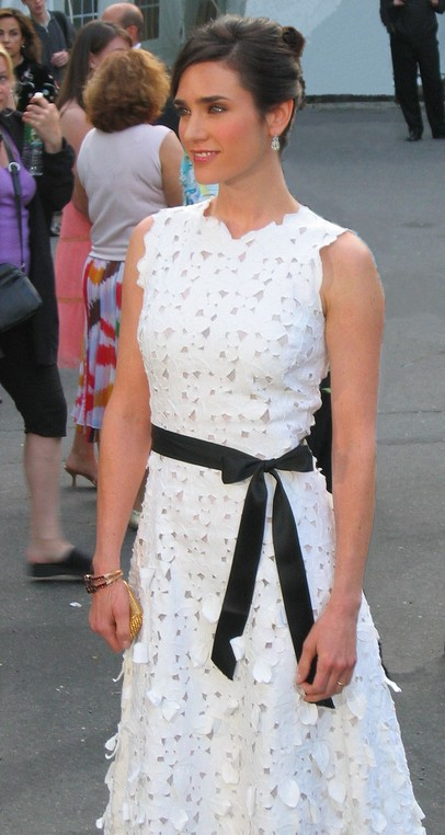 Jennifer Connelly in Central Park, New York City.Jennifer Connelly at Central Park